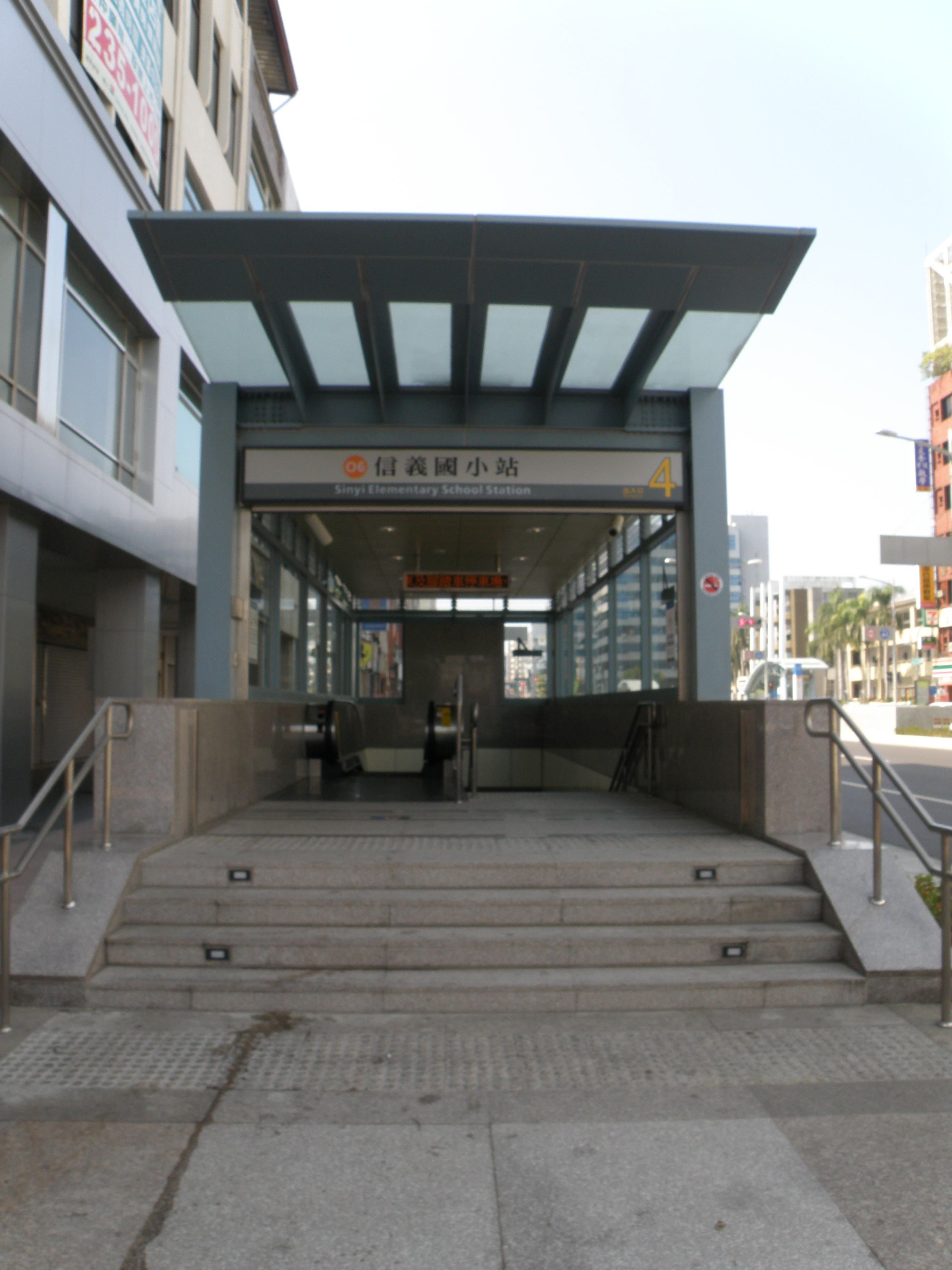 Exit No. 4 of Sinyi Elementary School Station, Kaohsiung Mass Rapid Transit.